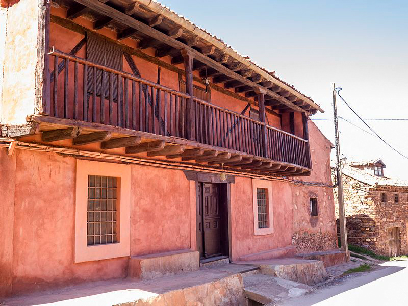 Madriguera. Pueblo rojo.